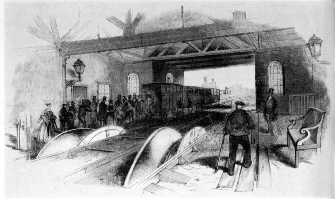 Minories station on the London and Blackwall Railway, circa 1840.